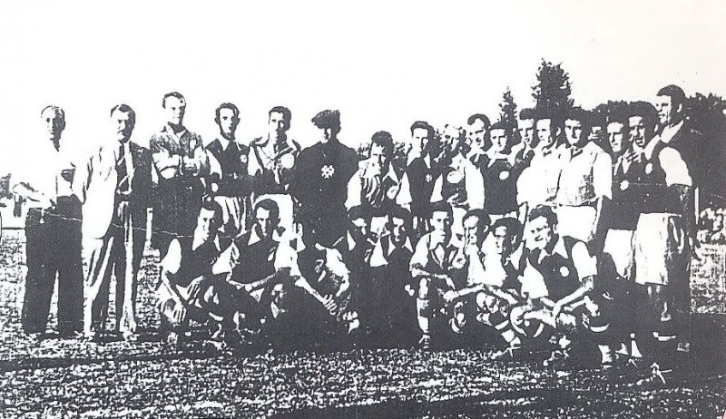 HŠK Zrinjski - 1. HŠK Građanski Zagreb 2:3, Mostar, 1940.